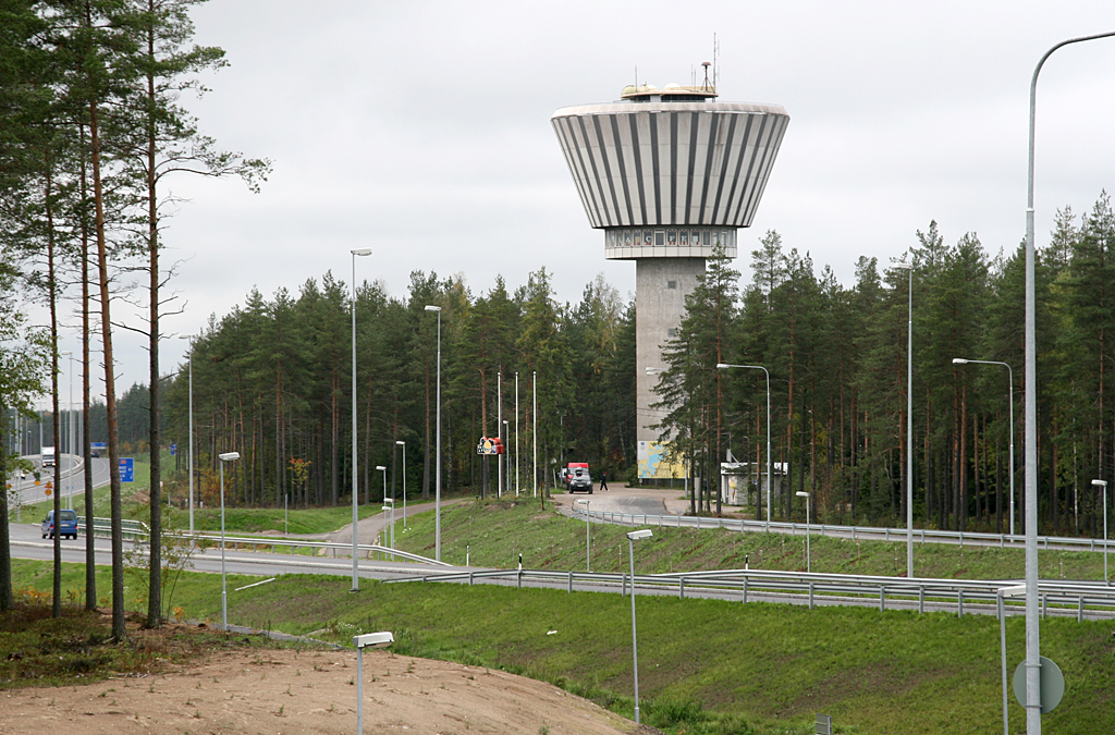 Lohja water tower, Finland